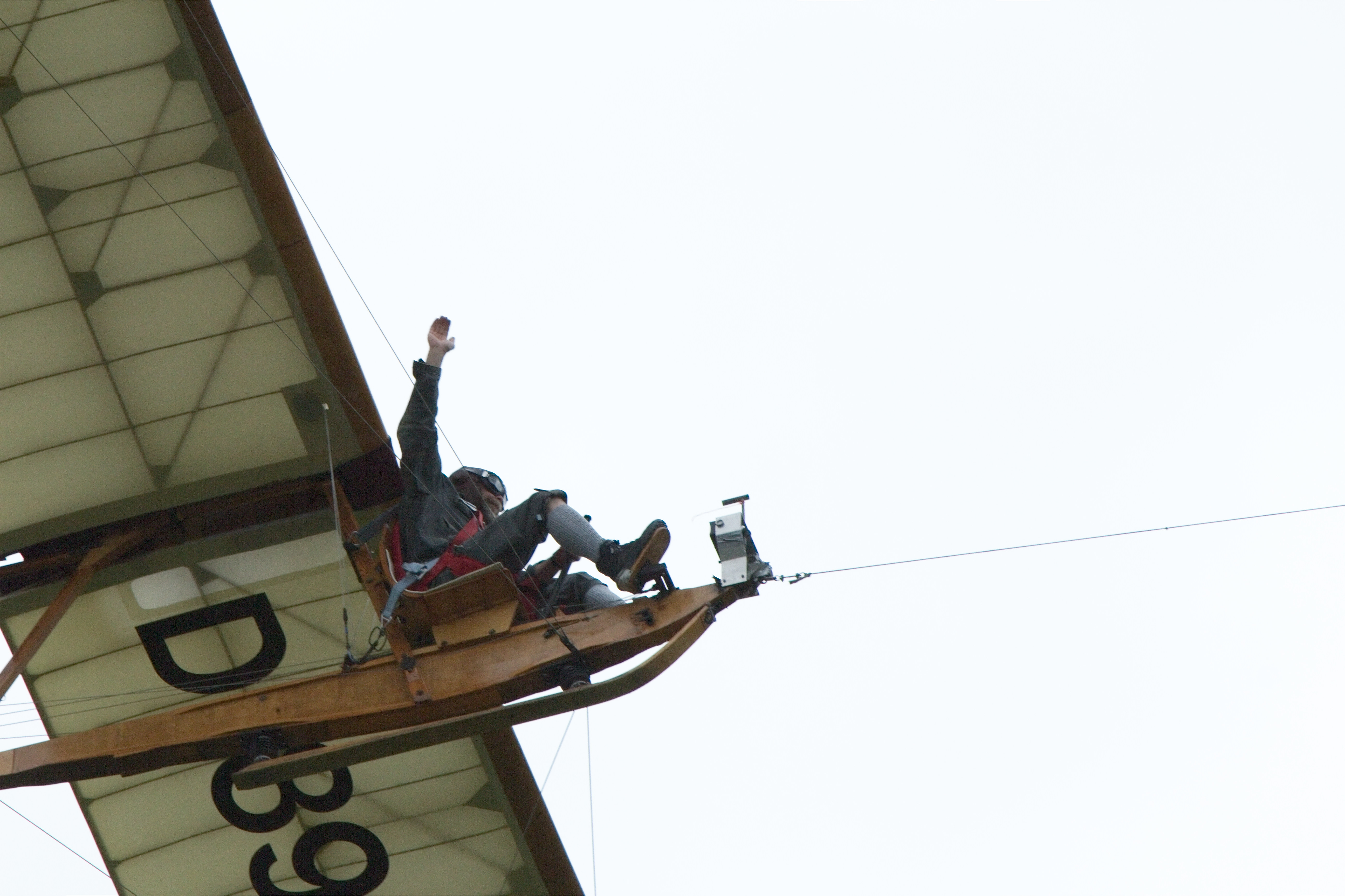 SG38 glider replica at Airpower11